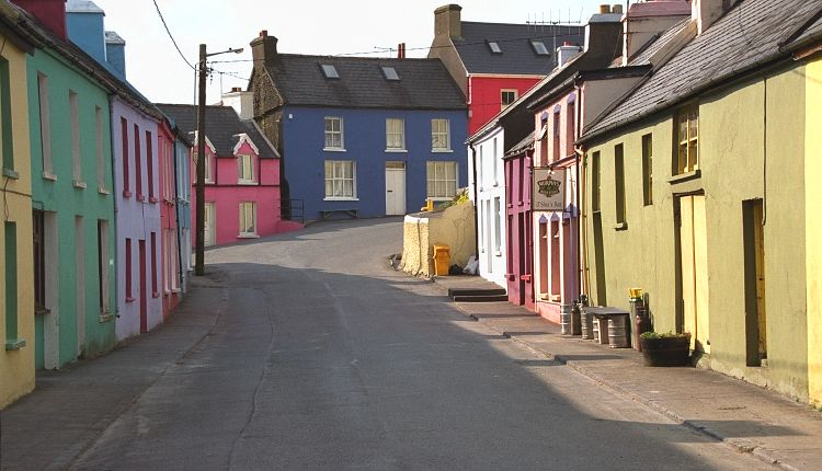 Painted houses in the village of Eyeries, County Cork, Ireland